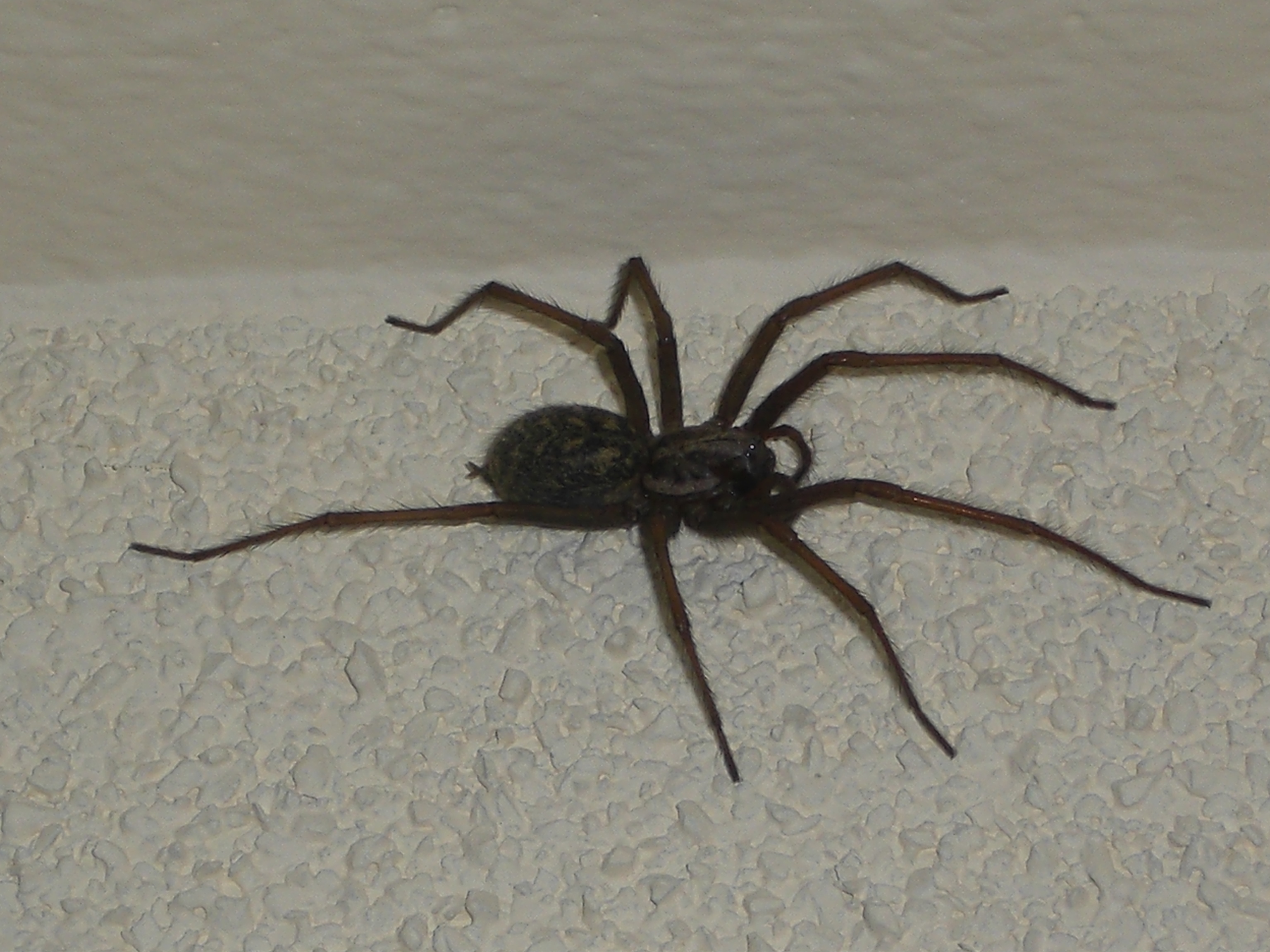 Tegenaria Duellica, picture taken in Amsterdam, The Netherlands